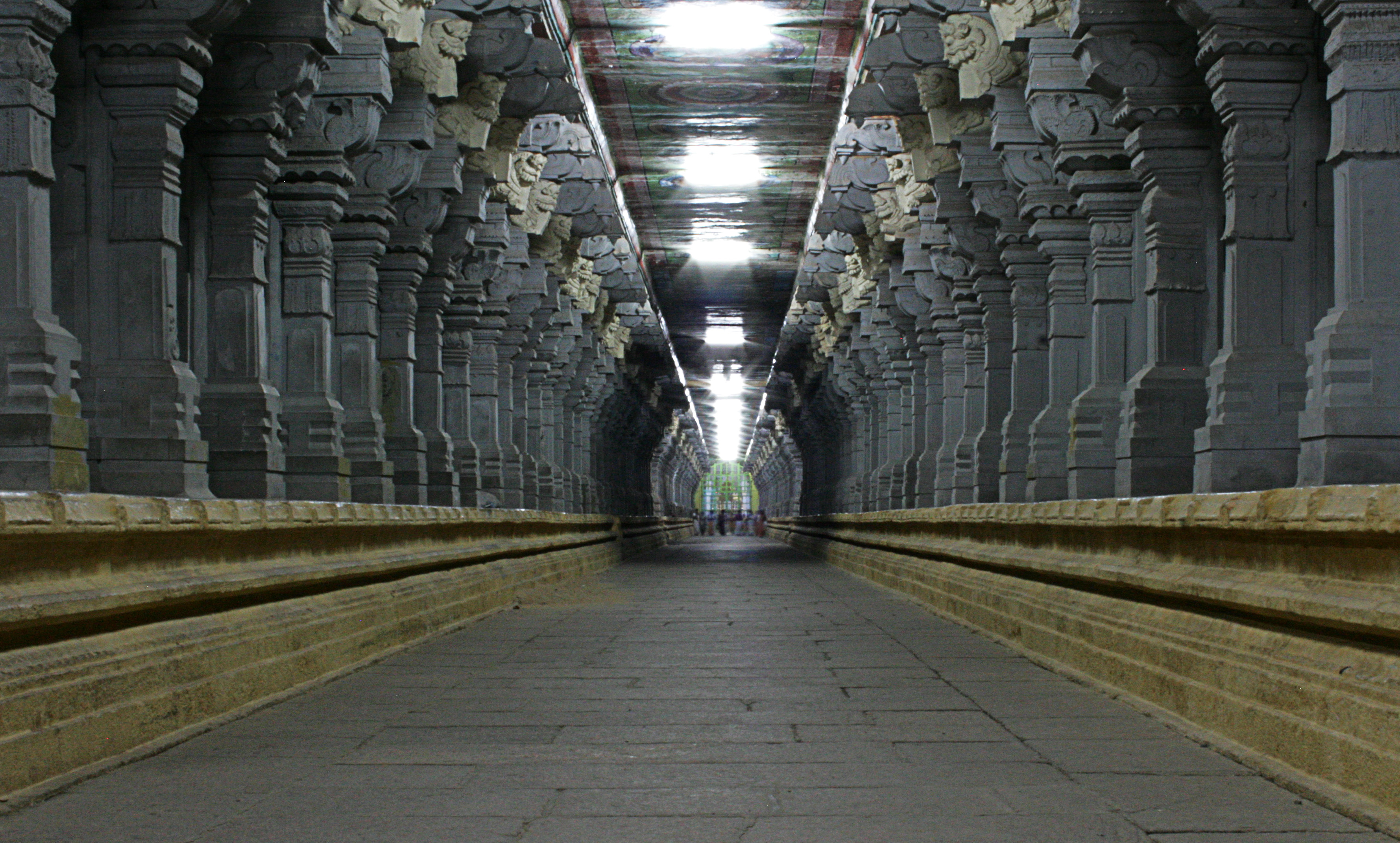 Sri Ramanatha swamy Temple Carridor, Rameswaram, India.